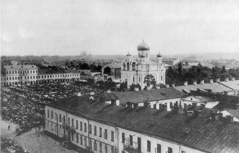 Downtown Daugavpils (Dvinsk) in early 20th century Latgaļu: Daugpiļs vydsmīsts 20 godusymta suokuos